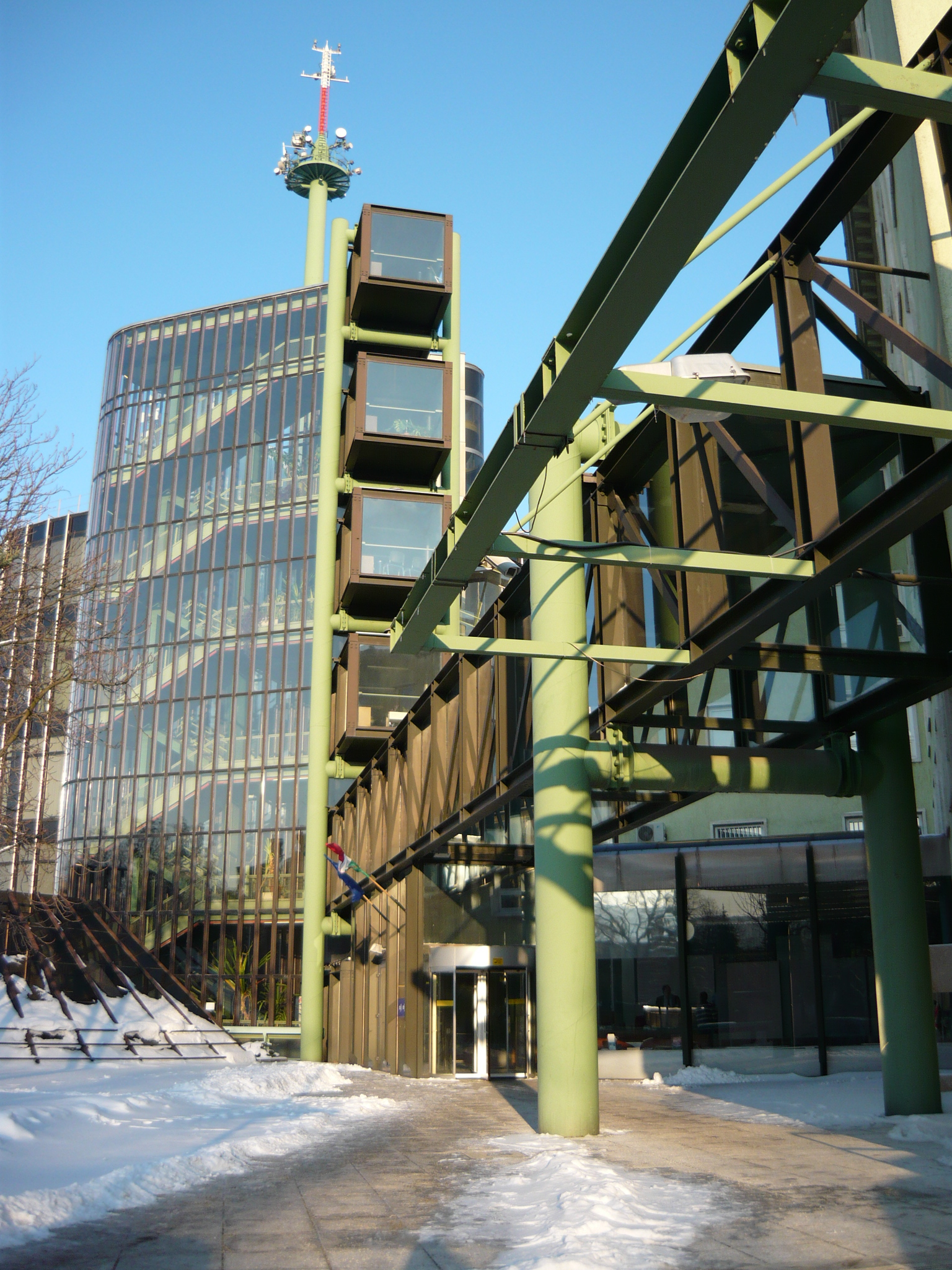 Main building of Magyar Távirati Iroda at Naphegy square, 1st district of Budapest